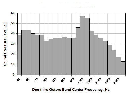 sailplane sound